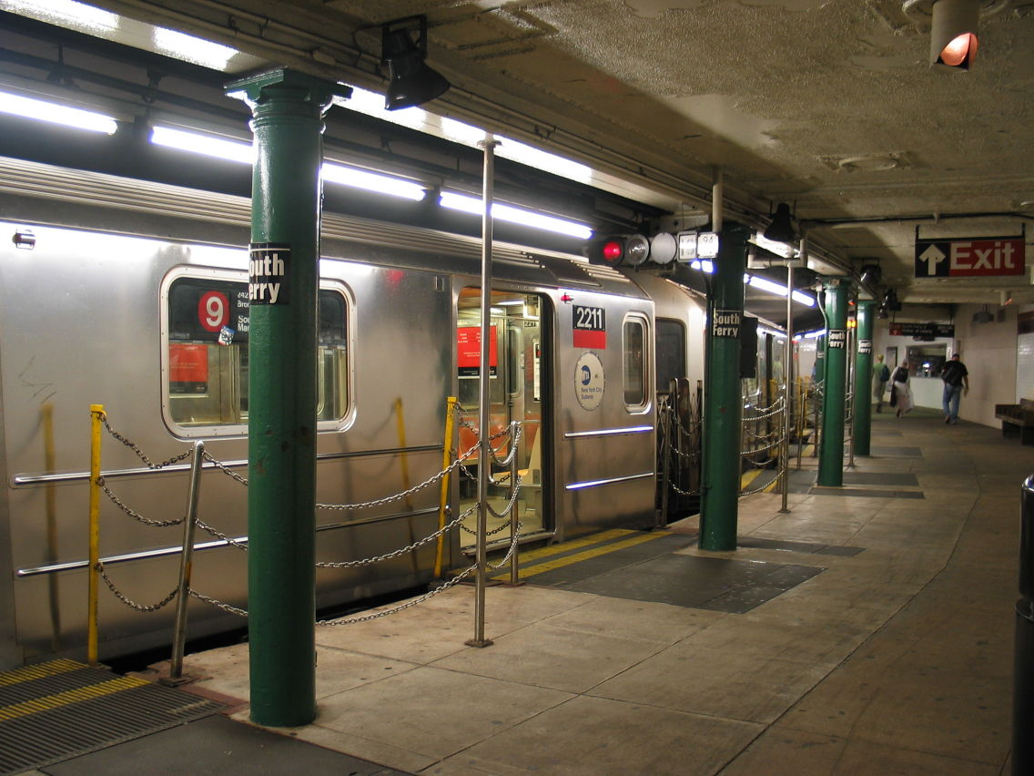 South Ferry Station in Lower Manhattan is the end point of the New York City Subway 1 train (The 9 train, as pictured above, was discontinued in 2005). The station is located in a loop and serves as a turning point for the trains going back north. It is located near the South Ferry terminal. Due to the small size of the station only the first five cars of the stopping trains can be boarded and alighted. Retractable platforms bridge the exceptionally large gap at the traindoors caused by the sharp curvature of the track.